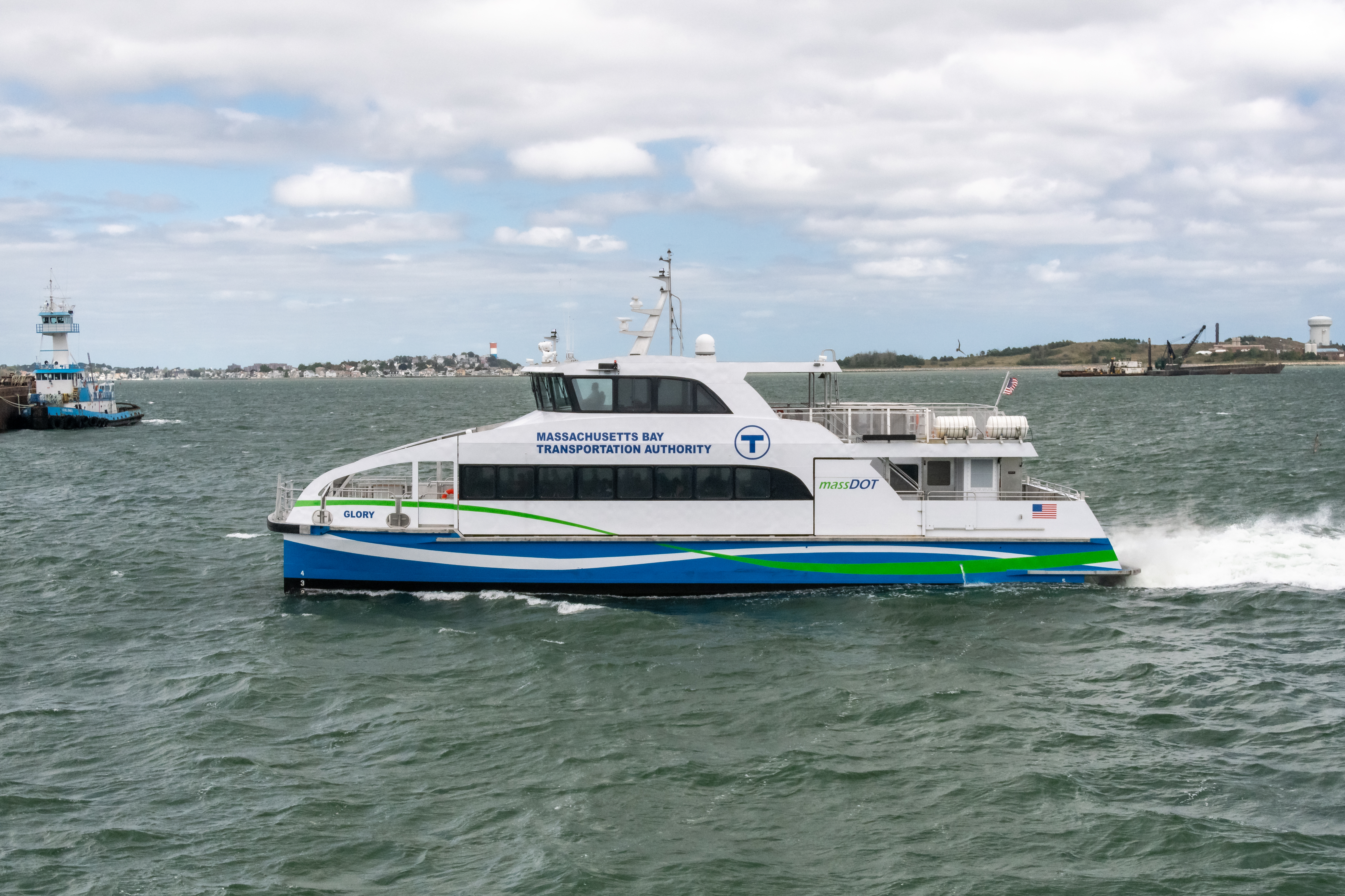 The MBTA ferry Glory, which joined the fleet in June 2018, in service that September